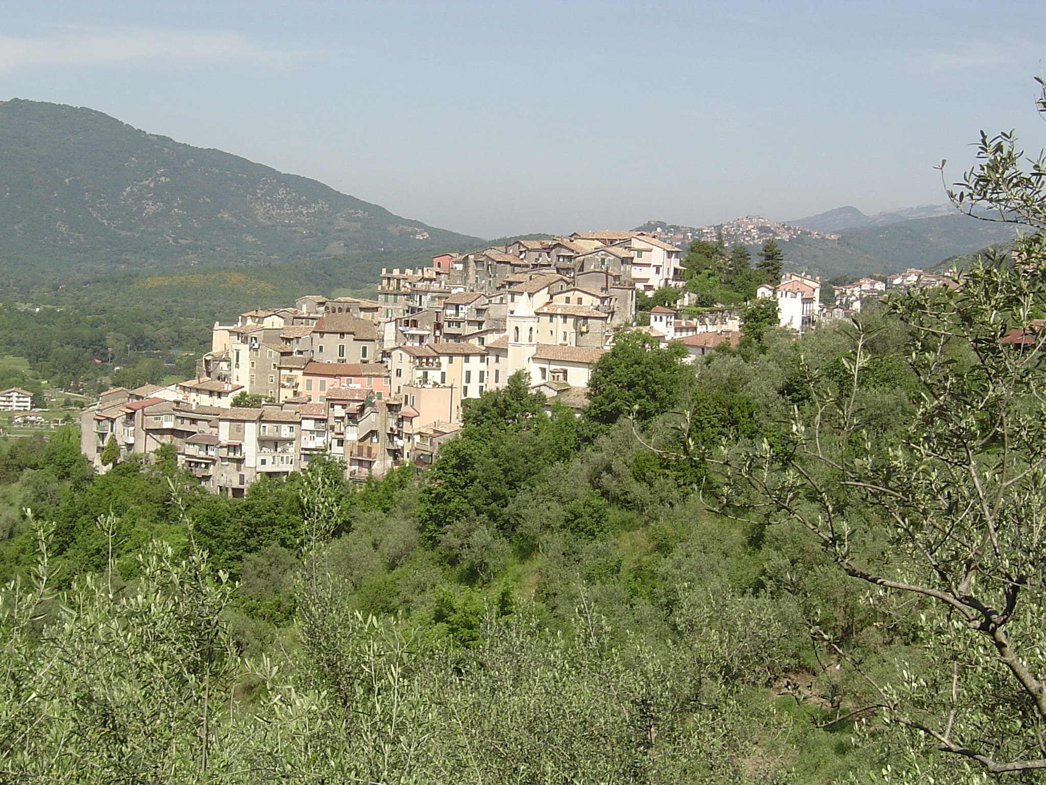 View of the village Gerano, Italy.